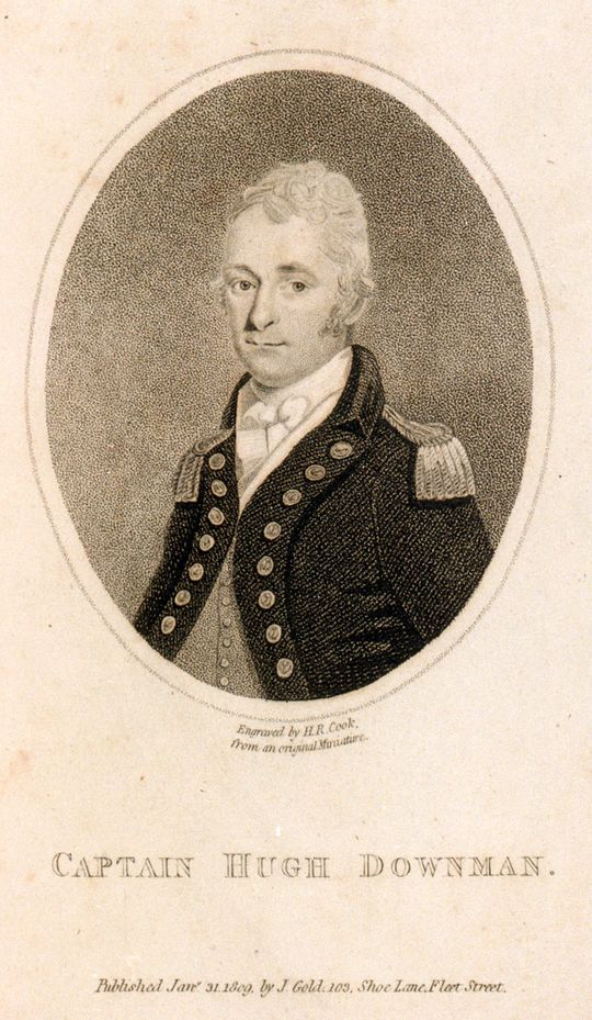 Portrait of Captain Hugh Downman (1765-1858), published by Joyce Gold of Fleet Street